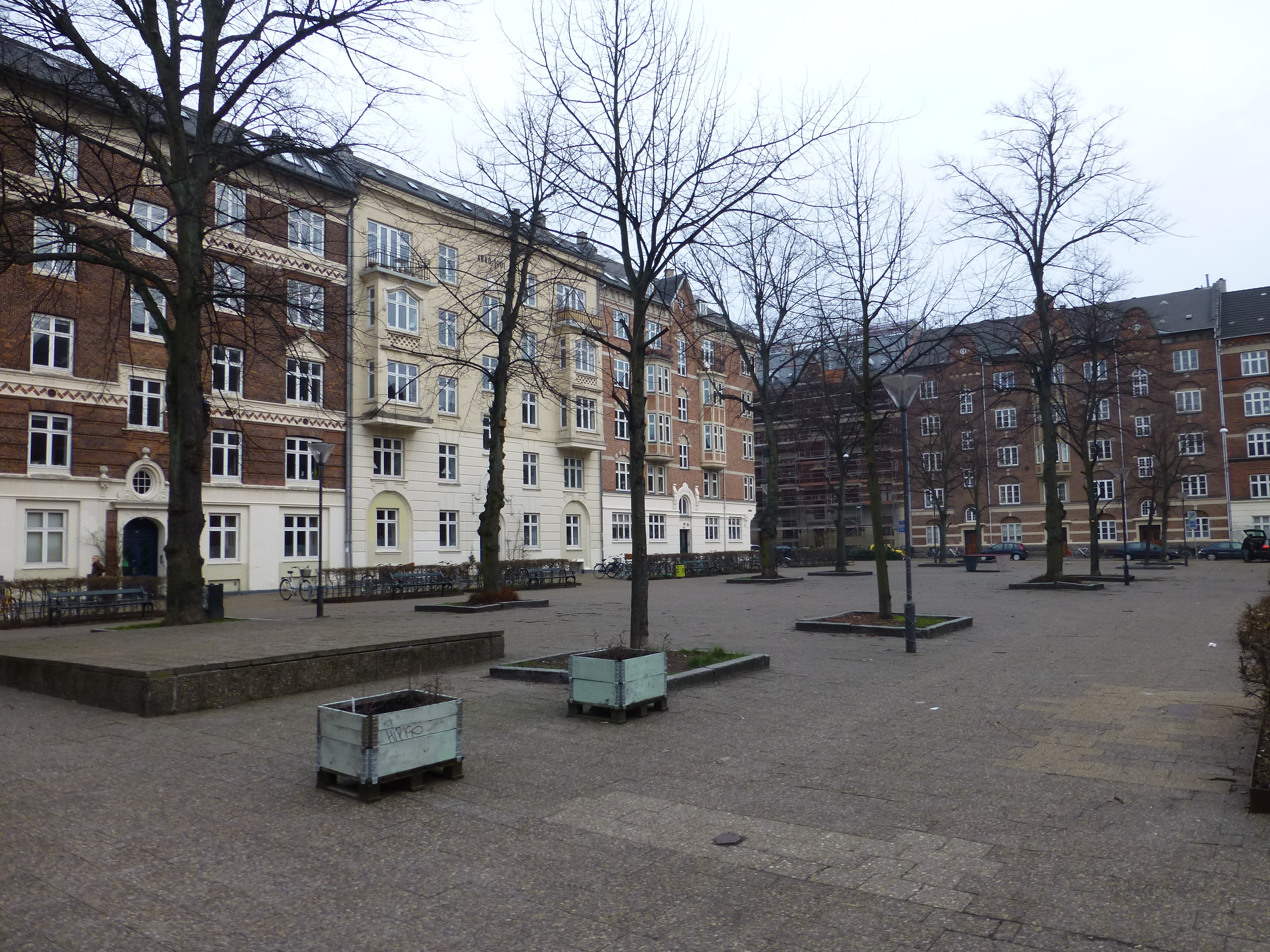 Balders Plads is a square in Nørrebro in Copenhagen.